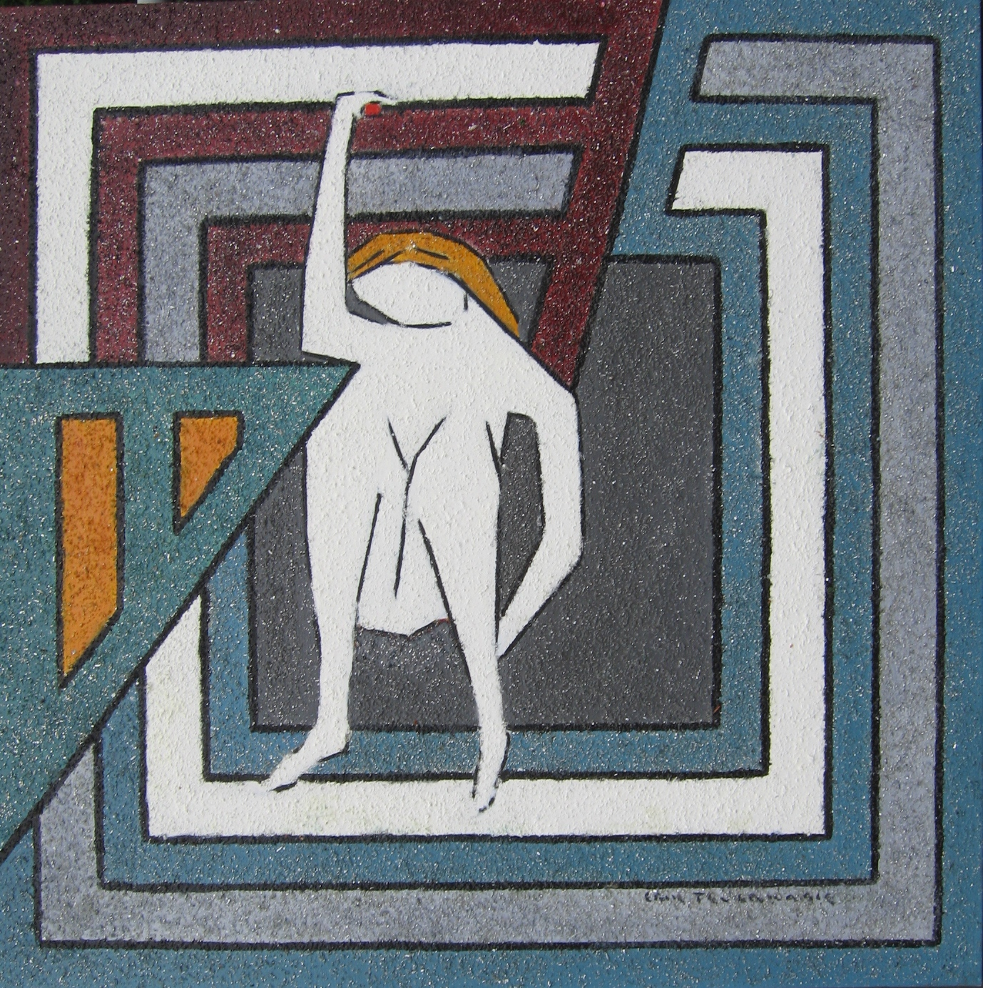 "The unbearable heaviness of being" , by Erik Pevernagie, (100 x 100 cm) Oil, metal on canvas Lightness and weightiness are both linked to a philosophy of life. They are choices in life. Heaviness can be the embodiment of a sense of responsibility, the expression of maturity, the result of profound meditation or the emanation of a search for meaning in life. Weightiness may also lead to a feeling of oppression when it is felt as a burden: an unbearable burden. In that case, time has come to release and offload a stale environment. Time has come, then, to let loose and to liberate oneself. In this way physical or mental dependence can be alleviated and will evaporate. Things lose then their gravity, their weightiness, finally. Phenomenon: Lightness and weightiness of life, as opposed to Milan Kundera's lightness of being Factual starting point : sitting woman